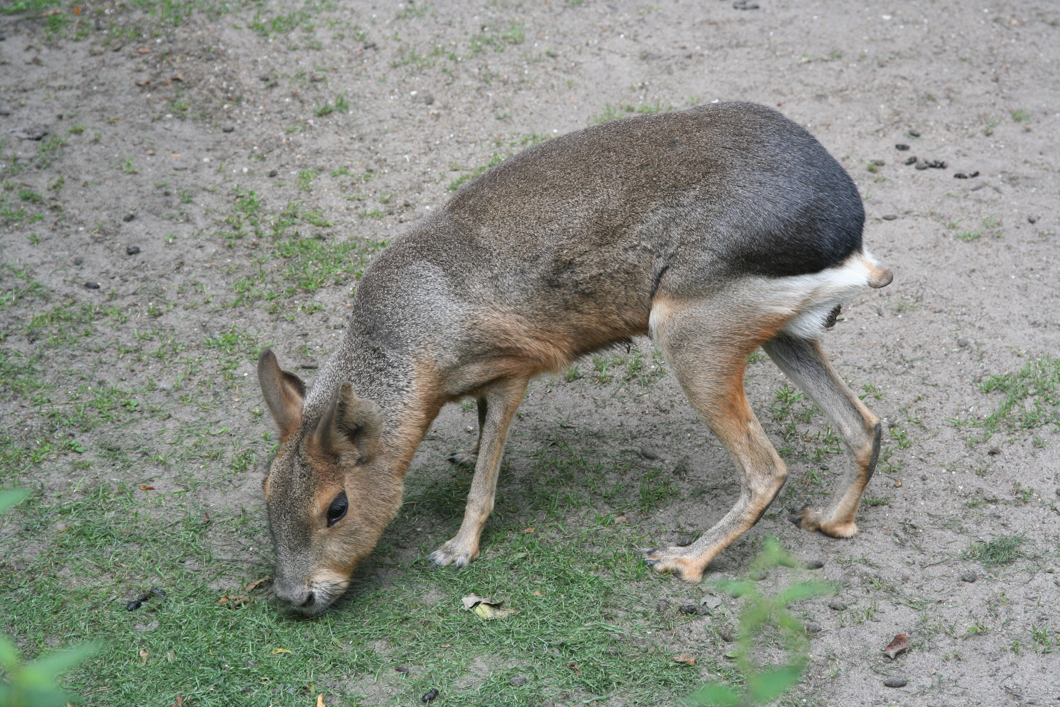 Dolichotis patagonum